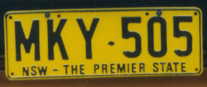 This image is a scan of a 35mm print taken in 1993